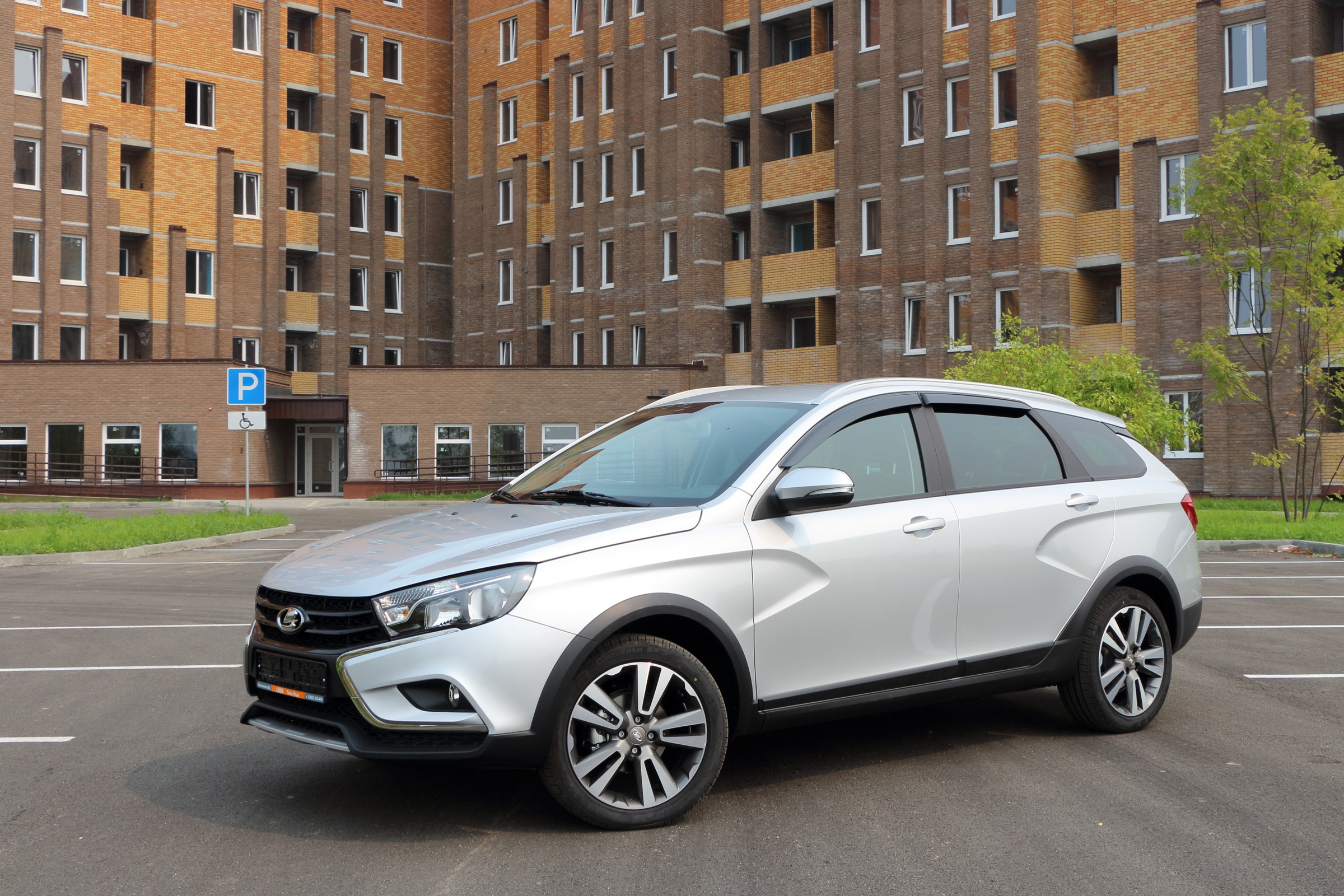 Lada Vesta SW Cross. Photographed in Tomsk, Russia.